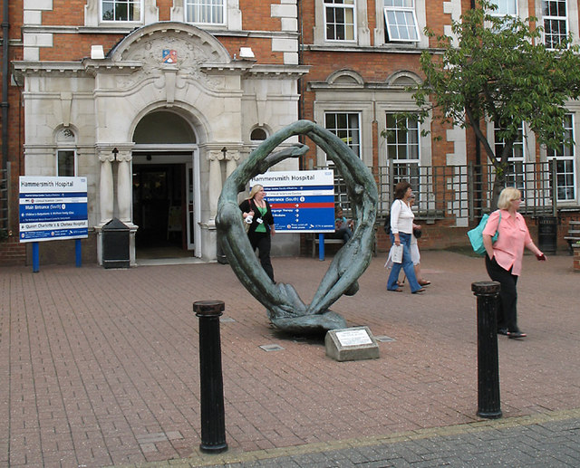 Circle of Life. Sculpture outside the main entrance to Hammersmith Hospital.